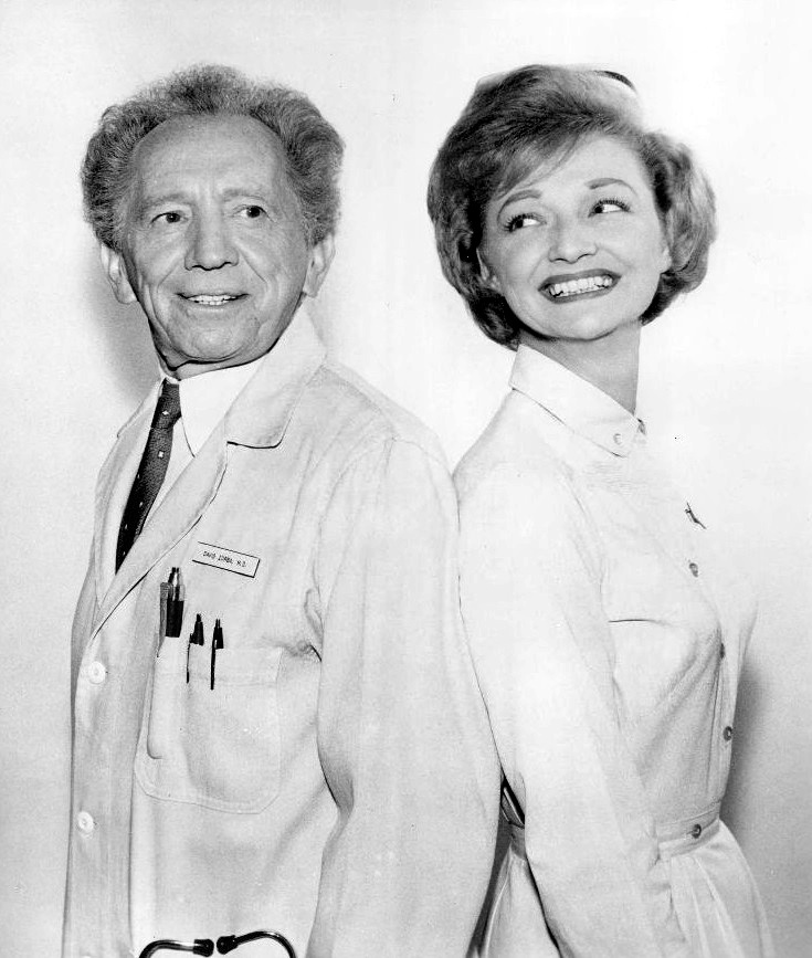 Sam Jaffe & Ruth Foster in 1965